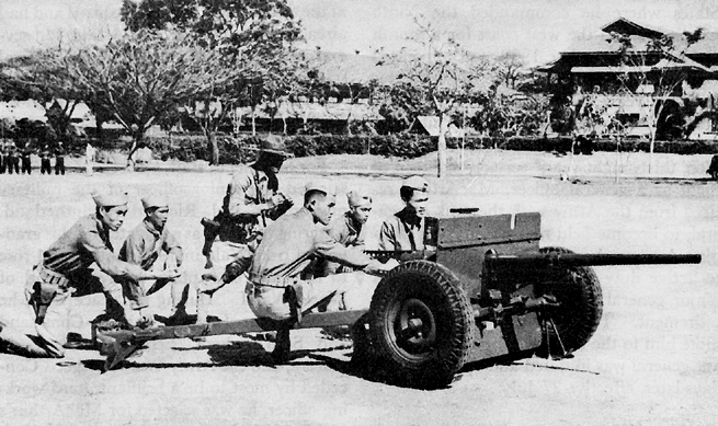 Philippine Scouts at Fort McKinley firing a 37-mm antitank gun in training.